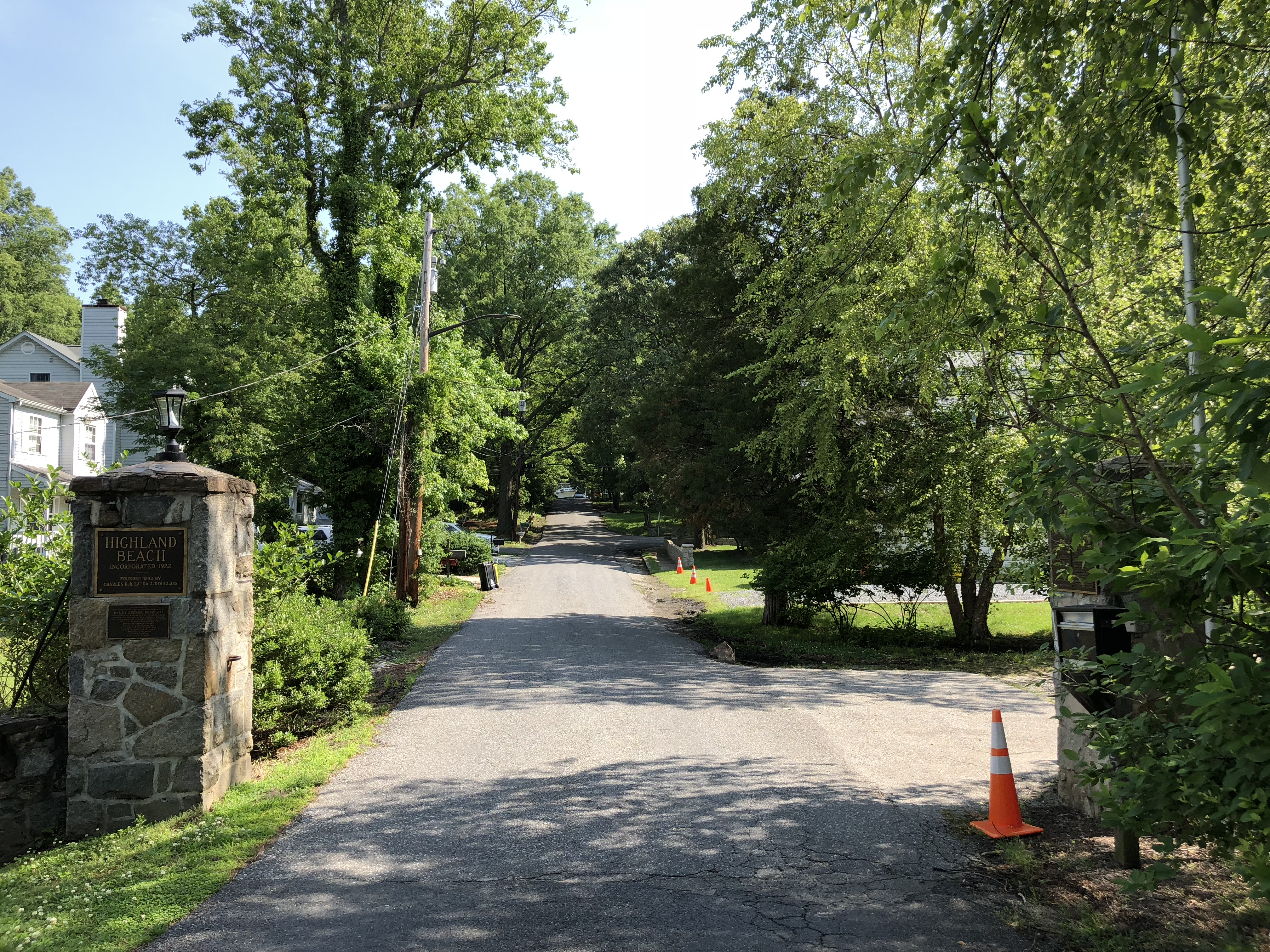 View northeast along Walnut Drive at the entrance to Highland Beach, Anne Arundel County, Maryland